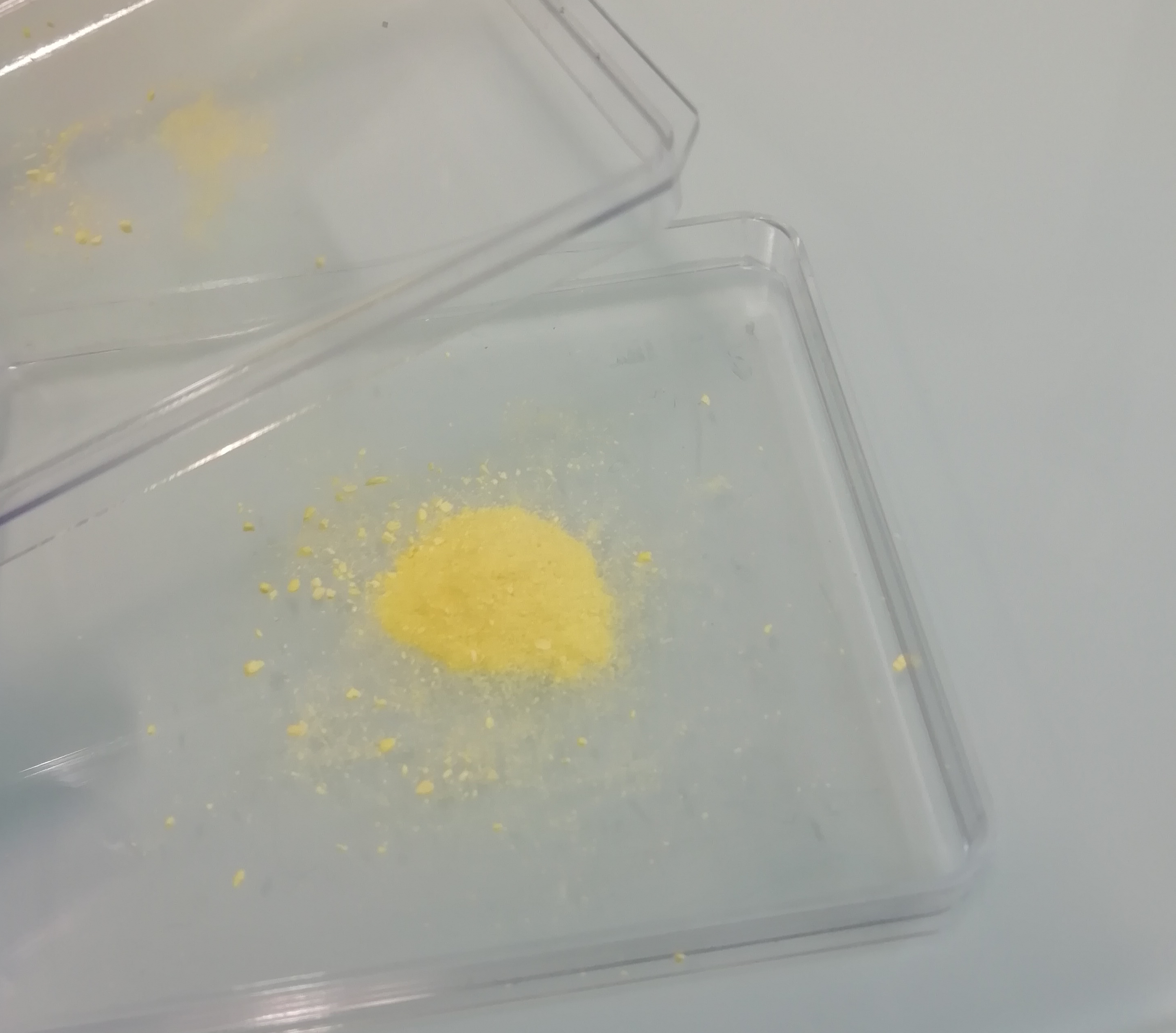 Glucose oxidase enzyme from Aspergillus niger. From Sigma-Aldrich, Type X-S, lyophilized powder, 100,000-250,000 units/g solid (without added oxygen), CAS Number 9001-37-0.